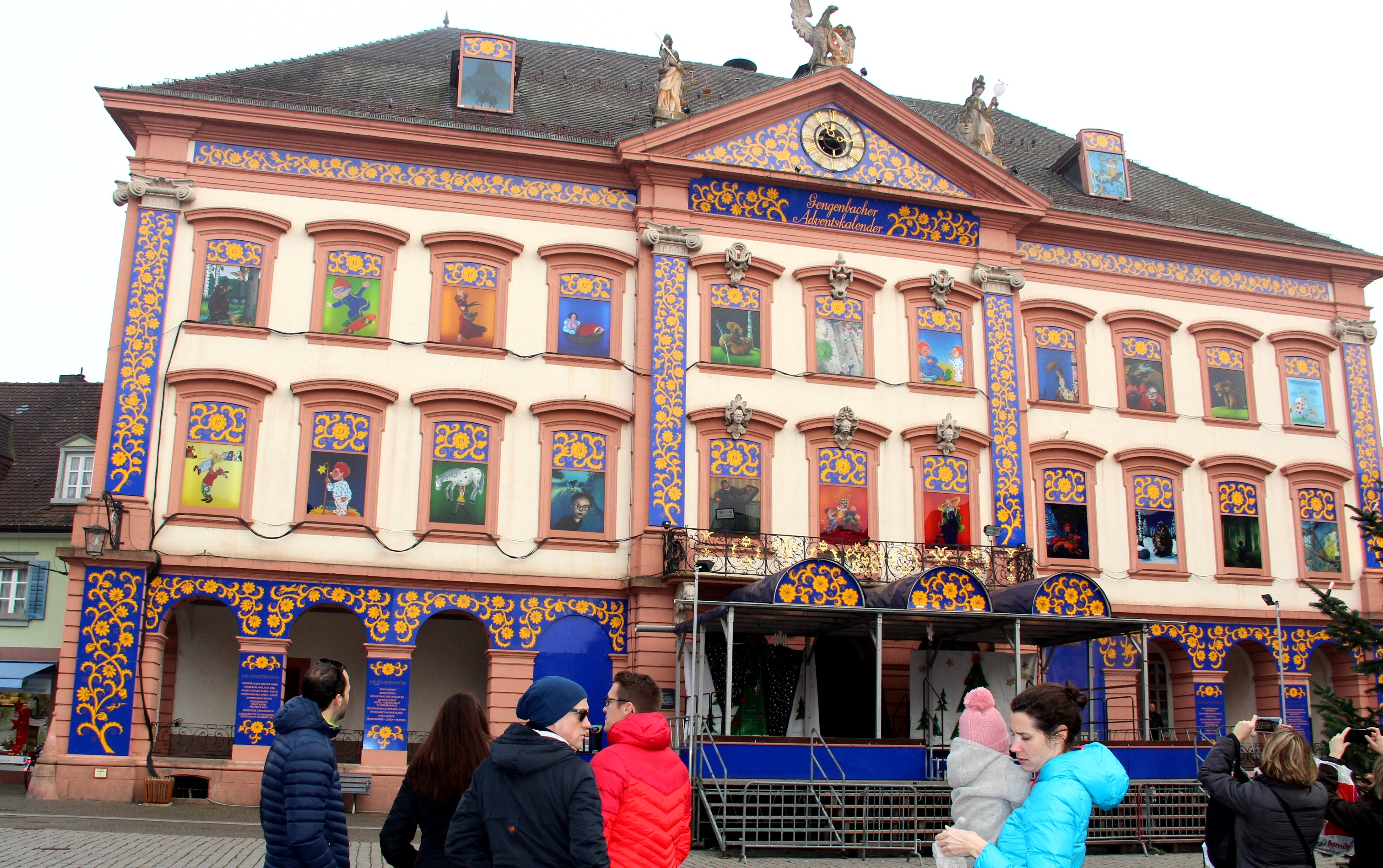 Advent Calender in Gengenbach - Germany